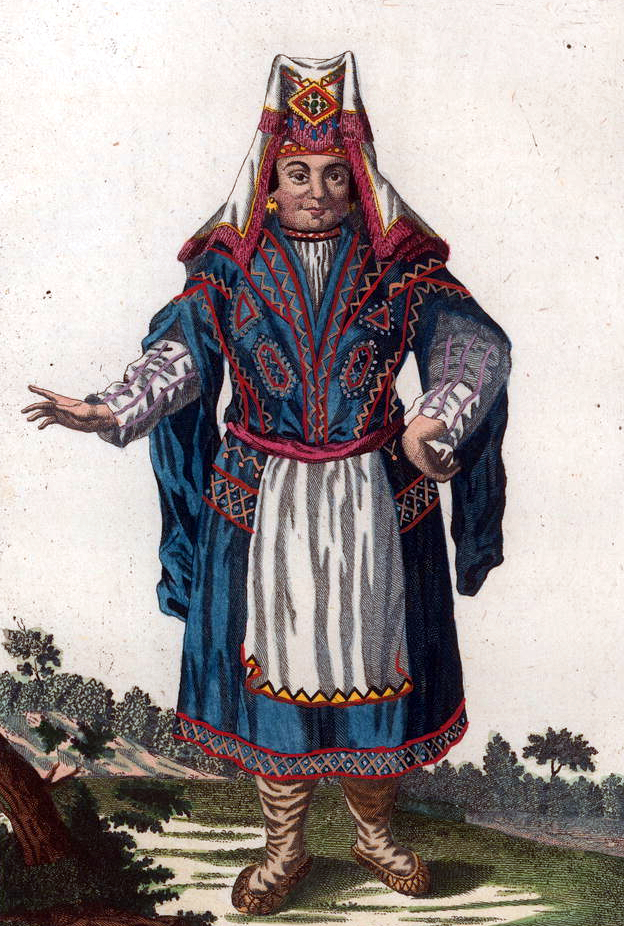 Udmurt people.